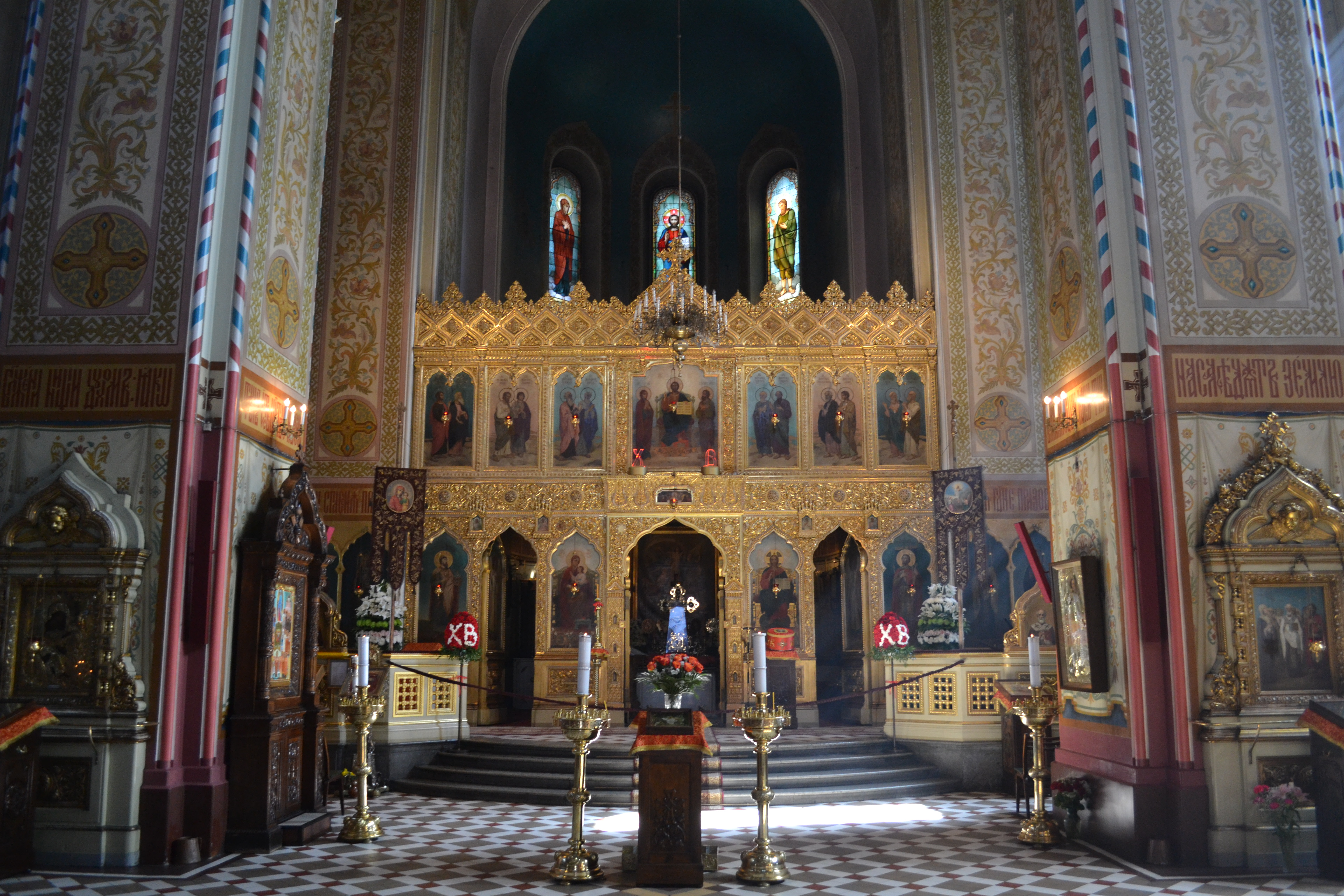 Interior of Aleksander Nevski cathedral in Tallinn, Estonia at Easter 2013